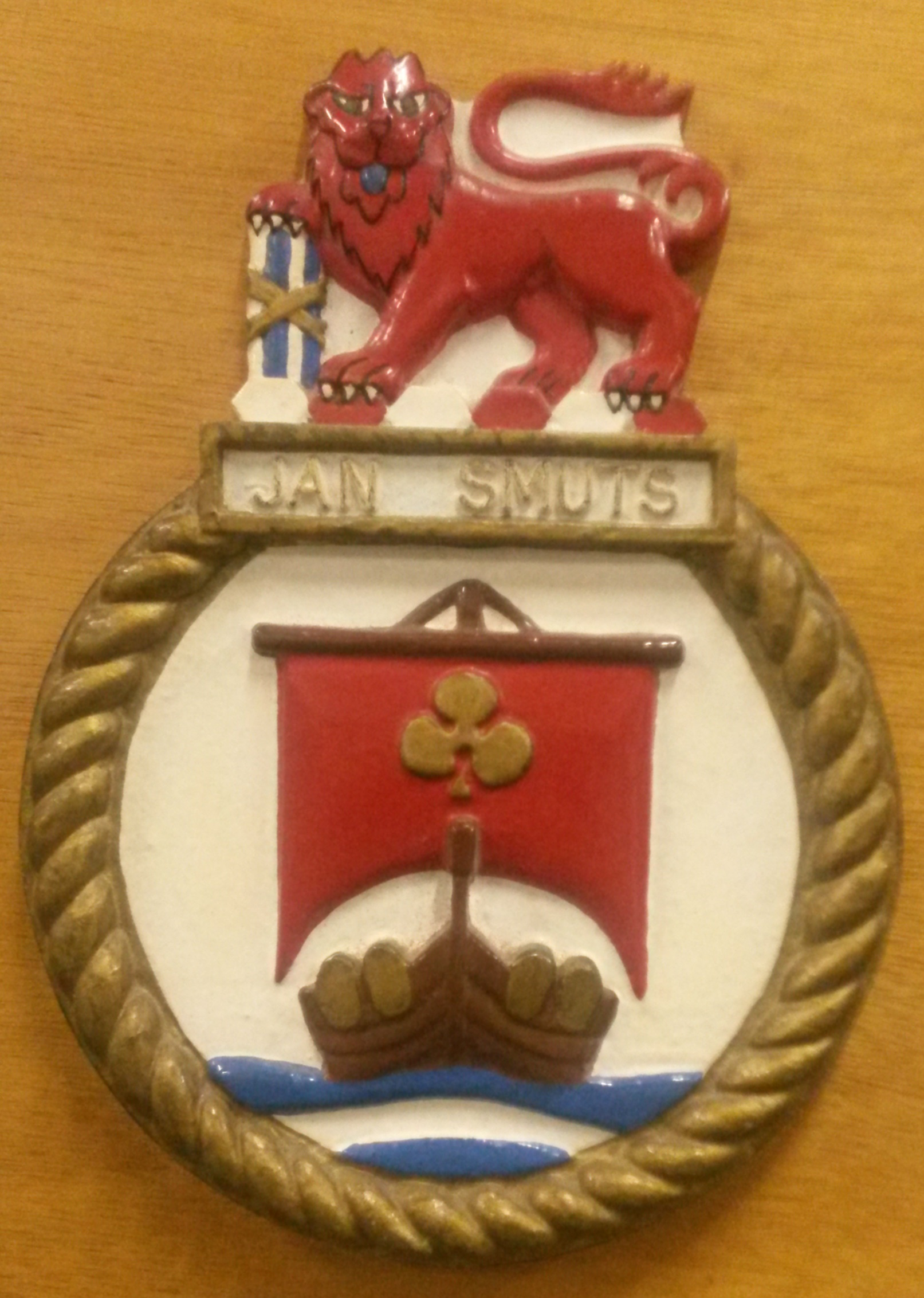 SAS Jan Smuts ships badge at the South African Naval Museum